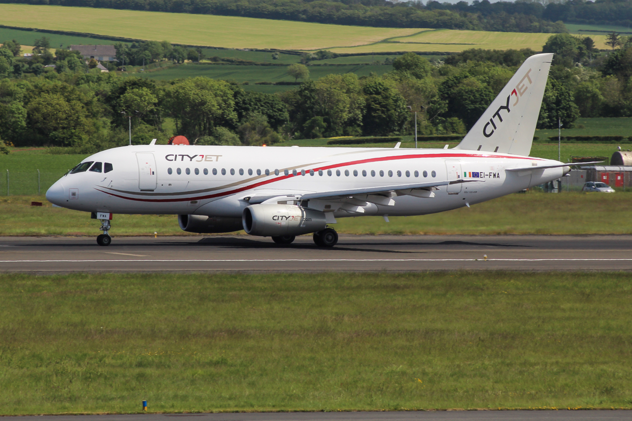 EI-FWA Sukhoi Superjet of CityJet doing a spot of crew training at Prestwick